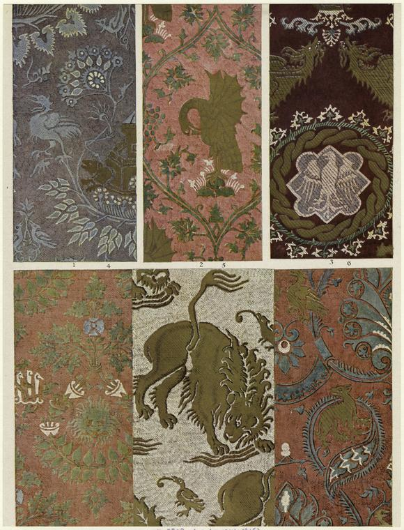 Italian silk damask, 1300s.